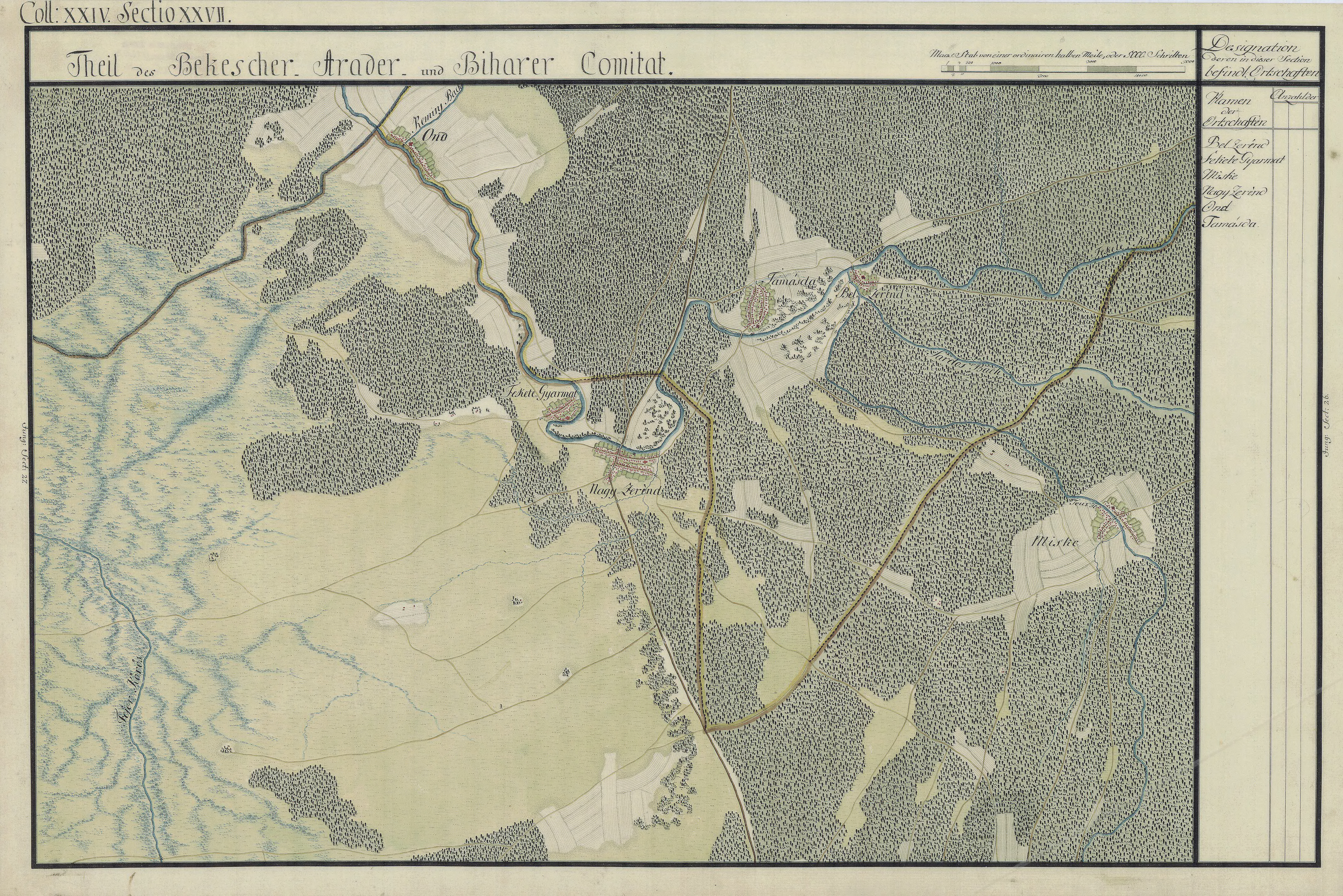 Kingdom of Hungary, 1782-85. Josephinische Landesaufnahme pg.24-27. Counties shown on the map: 1. Bihar County 2. Bekeser County 3. Arad County